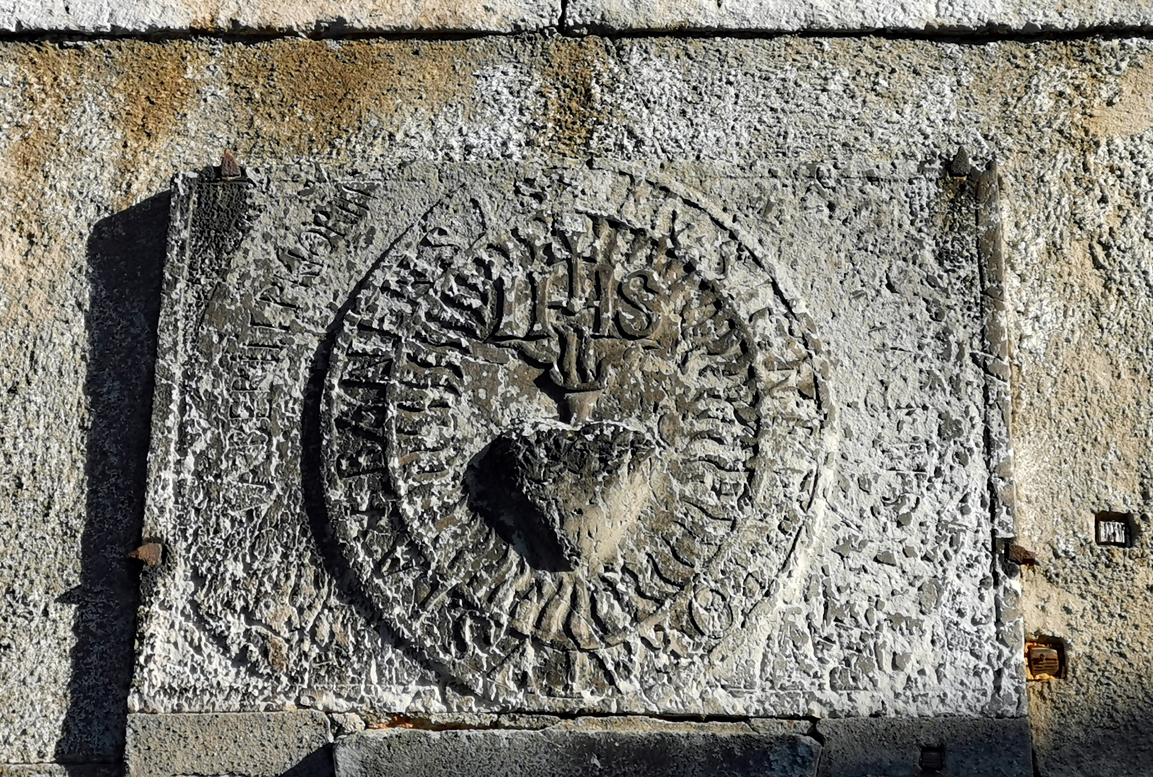 Curch tower of Henryków Lubański, Poland